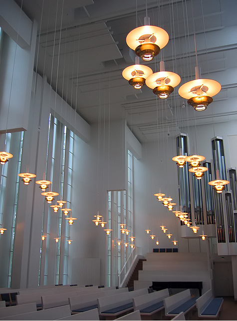 Interior of Myyrmäki Church in Vantaa, Finland